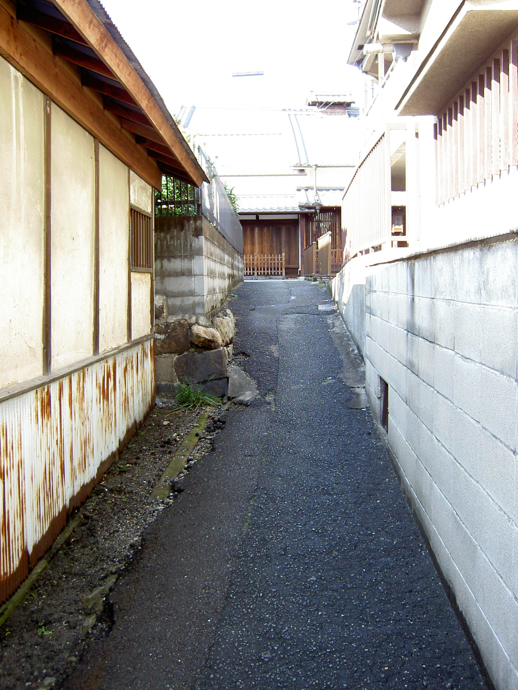 Hirakata juku, Alley in front of Kagiya. 9, Miyacho, Hirakata-shi, Osaka Japan.